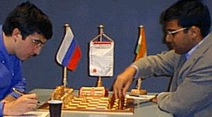 Vladimir Kramnik - Viswanathan Anand, Chess Days 1999 at Dortmund